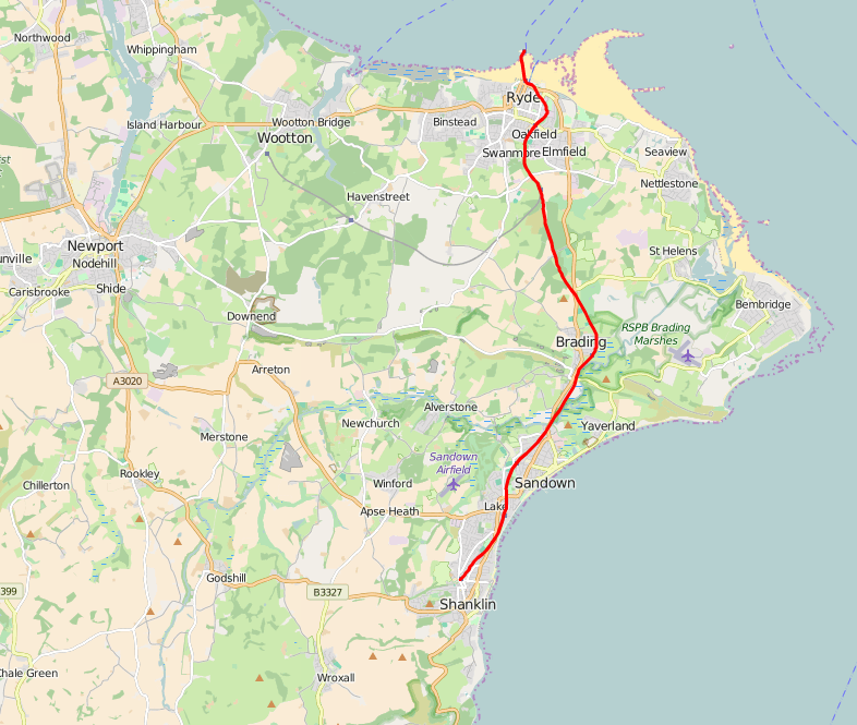 The Island Line This map may be incomplete, and may contain errors. Don't rely solely on it for navigation.